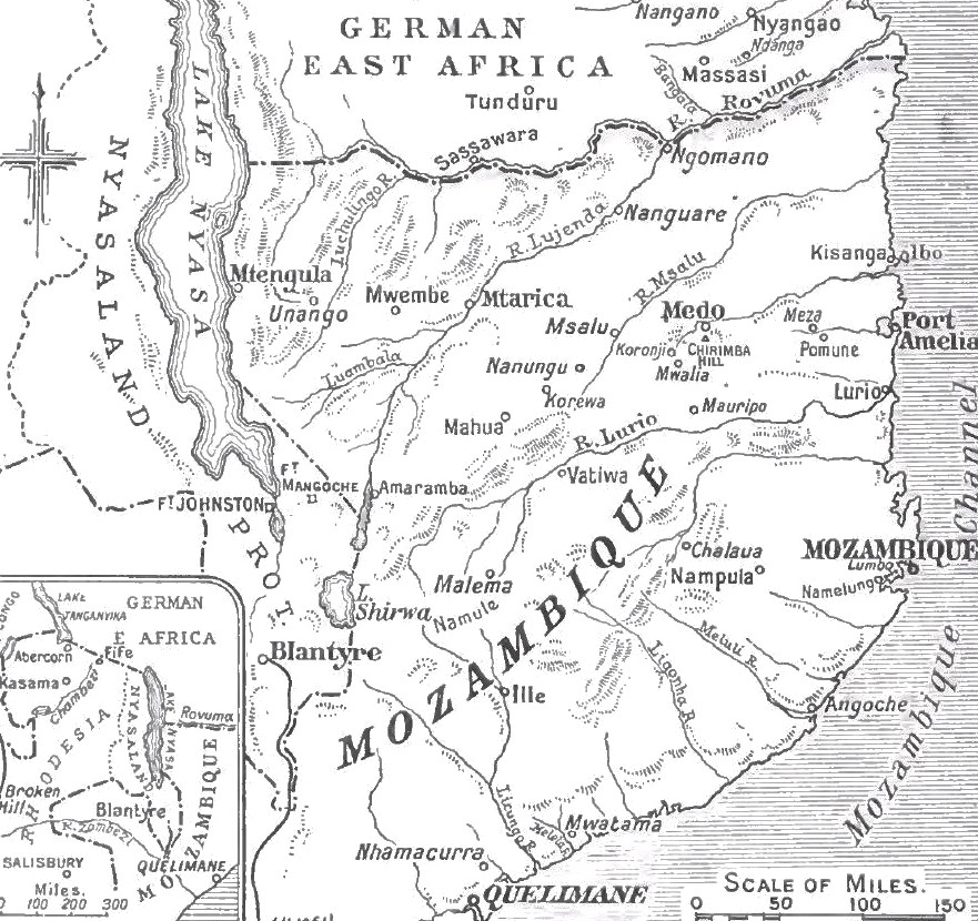 Map: Northern Mozambique, 1917-1918